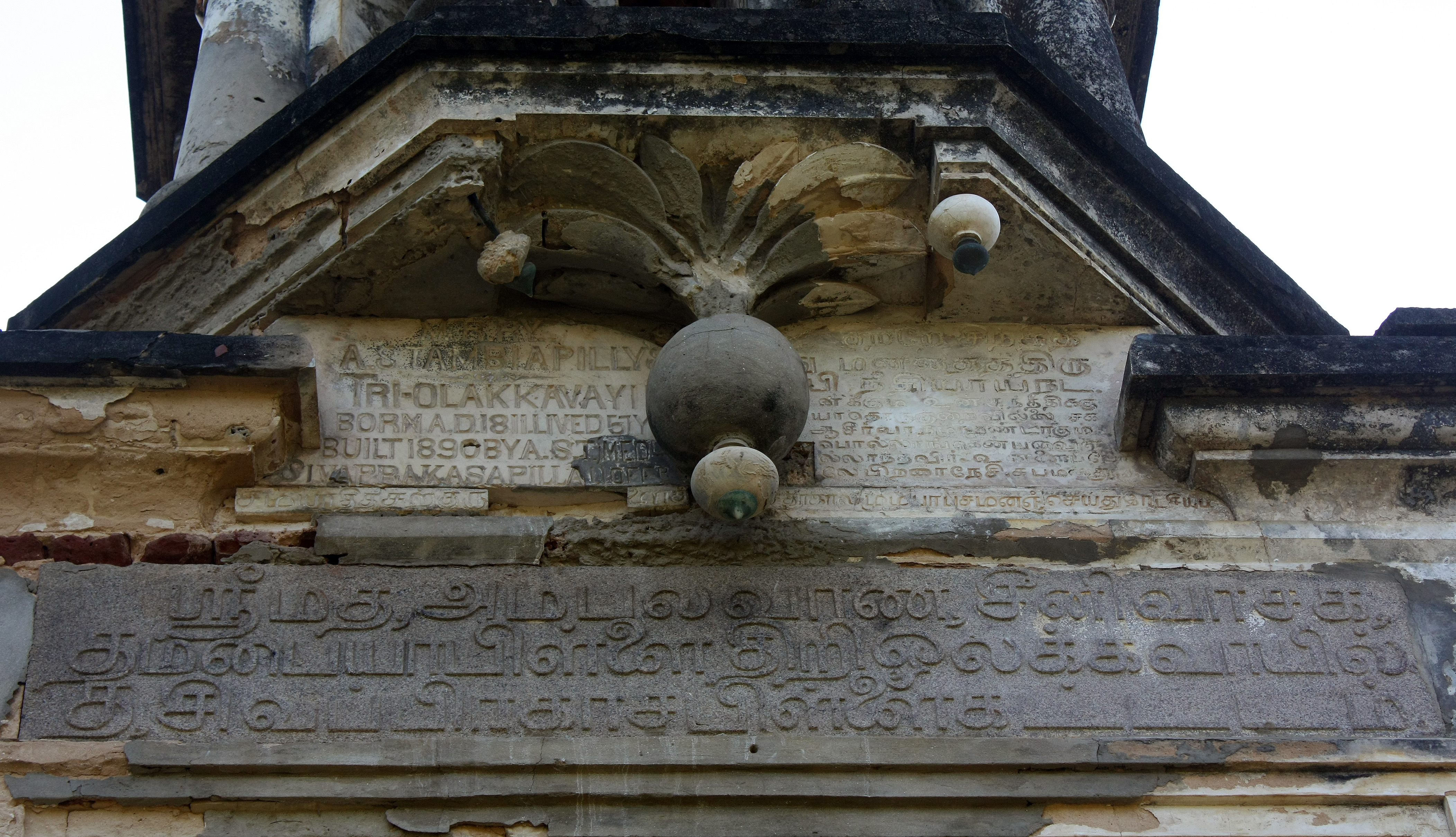 Front top of Mantri Manai, Jafna